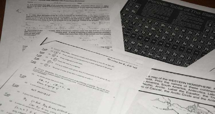 Worksheets from various areas of study cover the desk of a JTF Trooper. The Servicemen’s Readjustment Act, commonly referred to as the G.I. Bill, has helped service members pay for higher education and training programs since it was signed into law by President Franklin D. Roosevelt, June 22, 1944. – JTF Guantanamo photo by Navy Mass Communication Specialist 2nd Class Shane Arrington